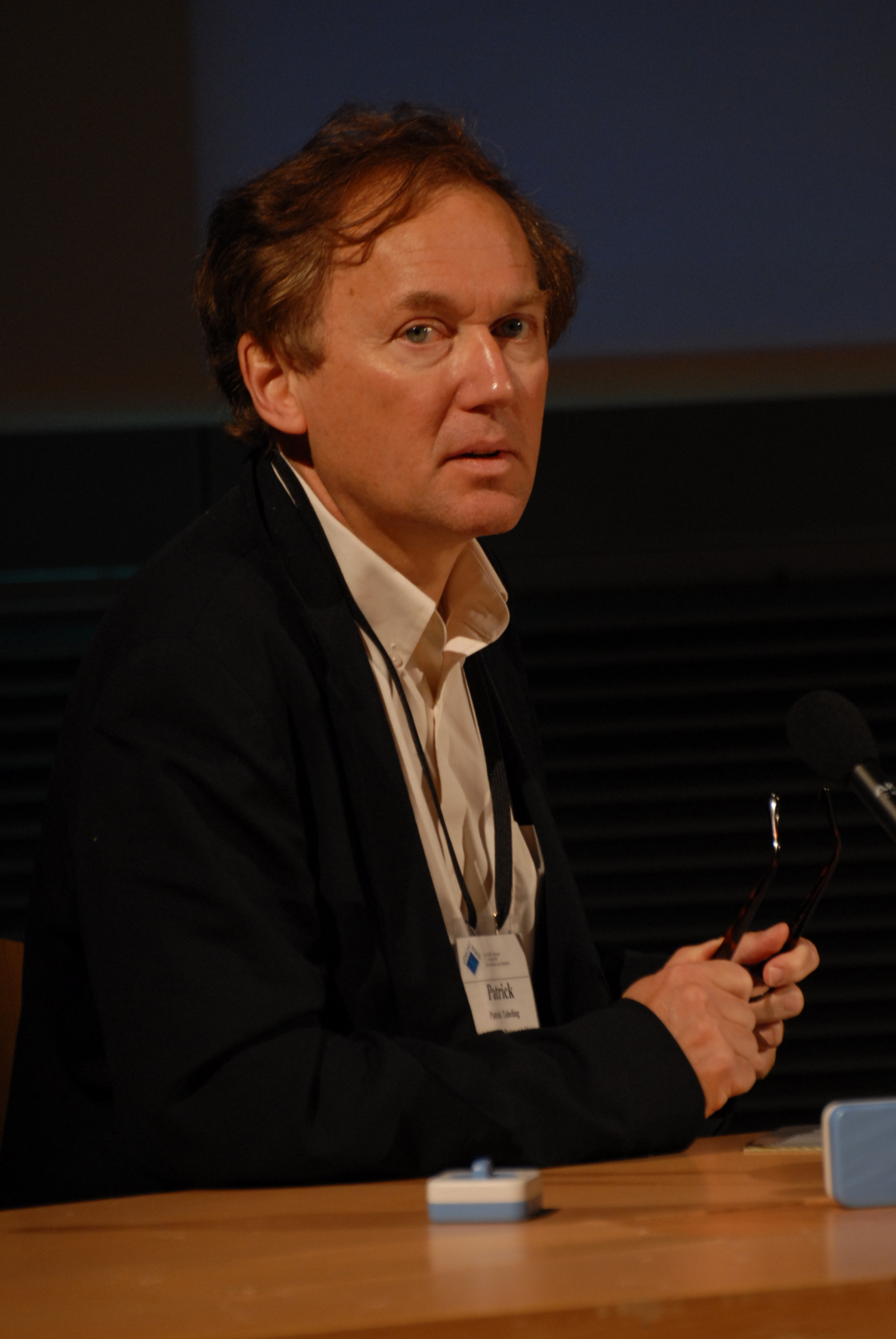 Patrick Tabeling at the 11th International Conference on Miniaturized Systems for Chemistry and Life Sciences (µTAS 2007 Conference).